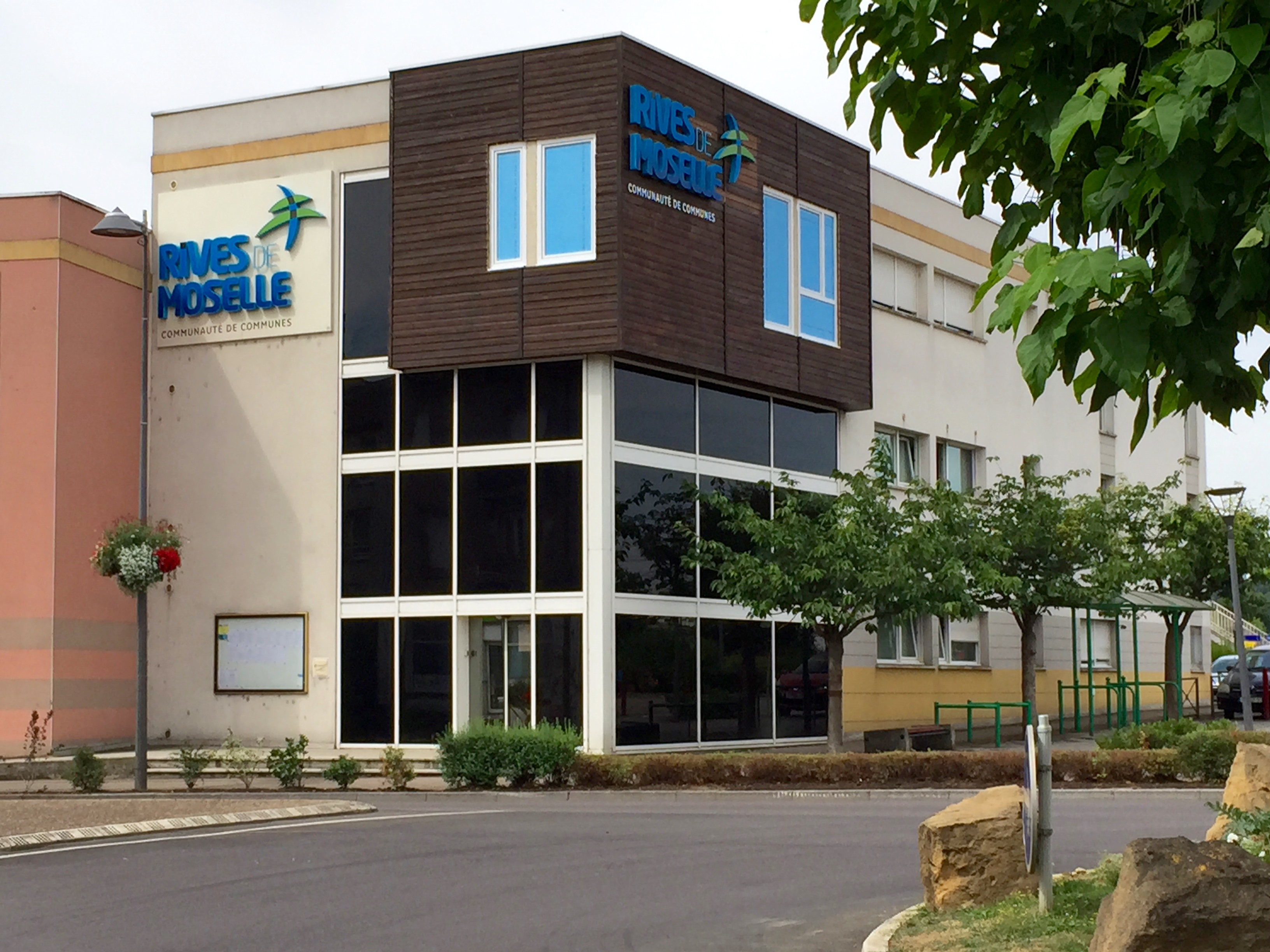 Administrative office of the Communauté de Communes Rives de Moselle at Maizières-lès-Metz (Moselle department, France)